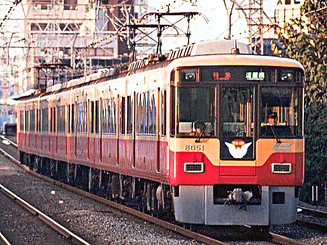 Keihan 8000 series EMU set 8001 in original seven-car formation near Morishoji Station in Osaka, Japan